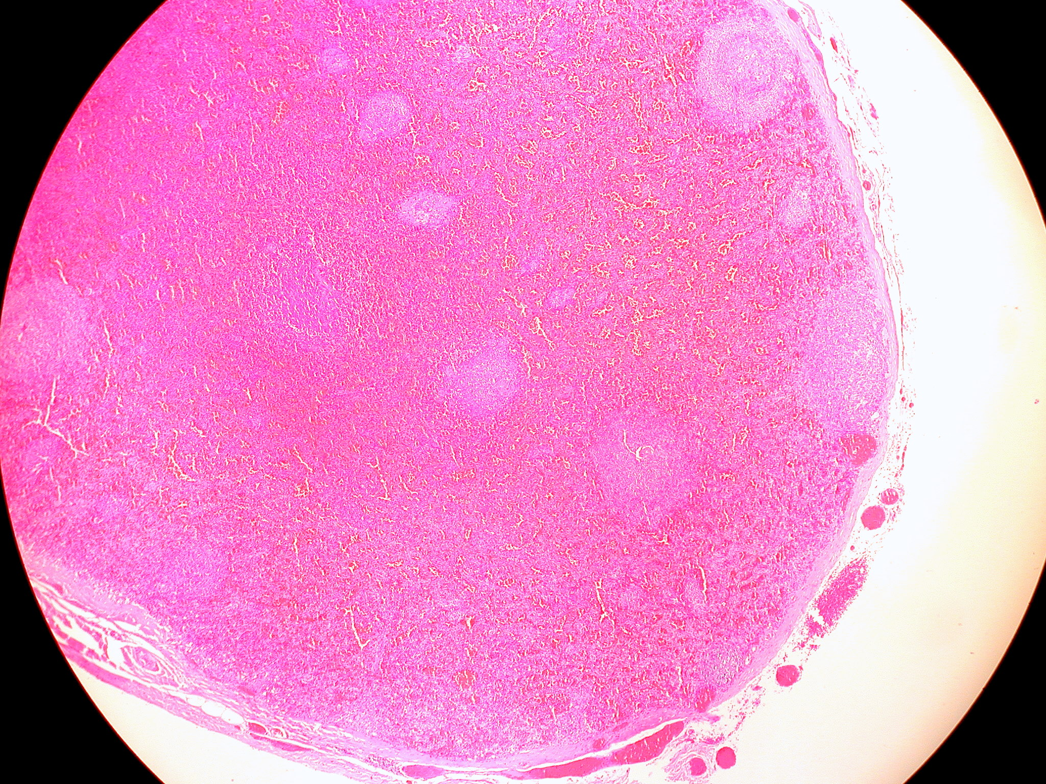 This histologic section is from a 0.6 x 0.5 x 0.4-cm dark brown nodule discovered incidentally during laparoscopy to evaluate abdominal pain in a 42-year-old woman. It was submitted to the pathologist as "mesenteric lymph node." Grossly, it was firm and smooth-surfaced. On section, the cut surface was dark greyish brown and homogeneous.